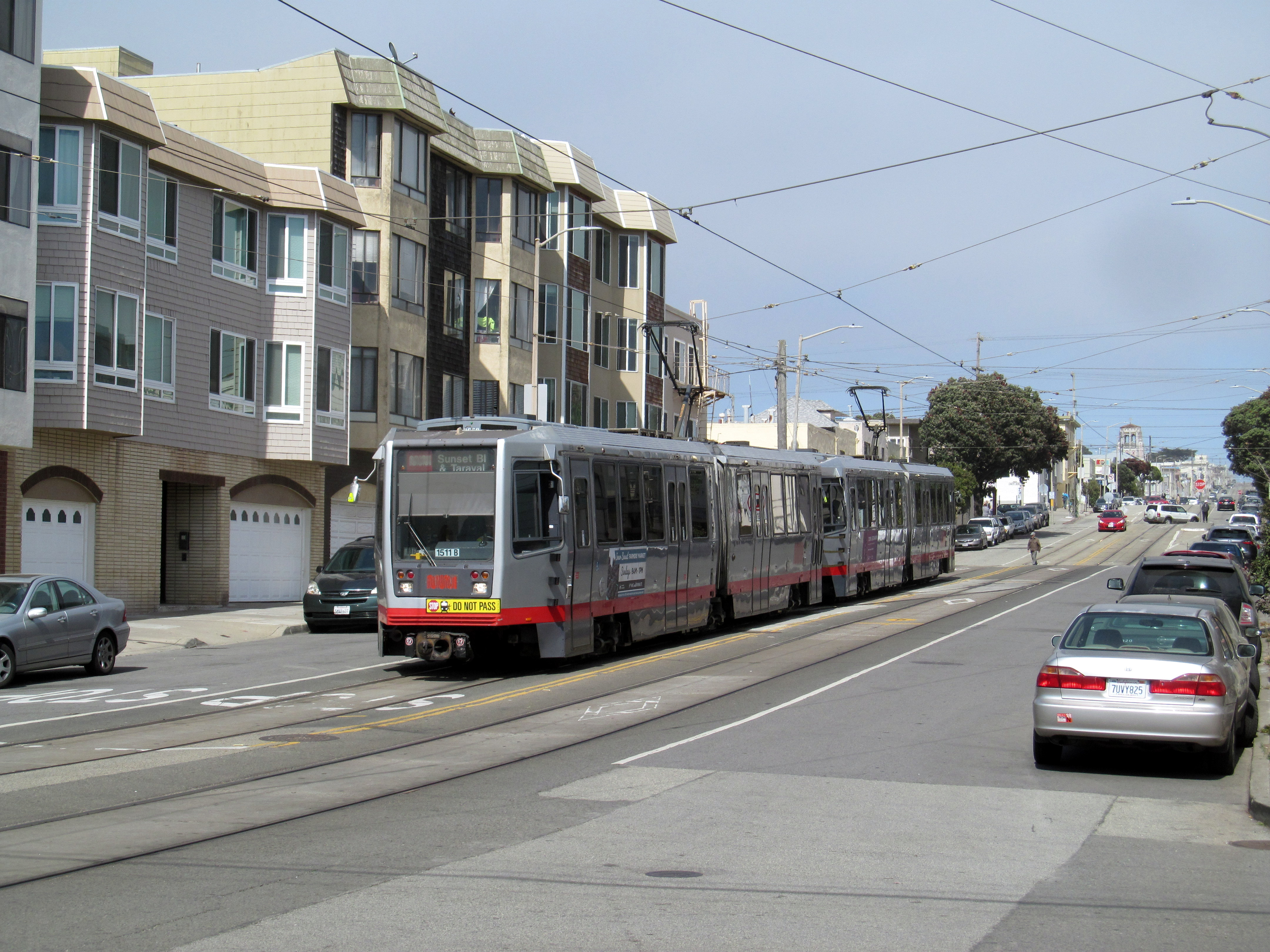 An outbound train about to cross 48th Avenue into Judah and La Playa station in July 2017